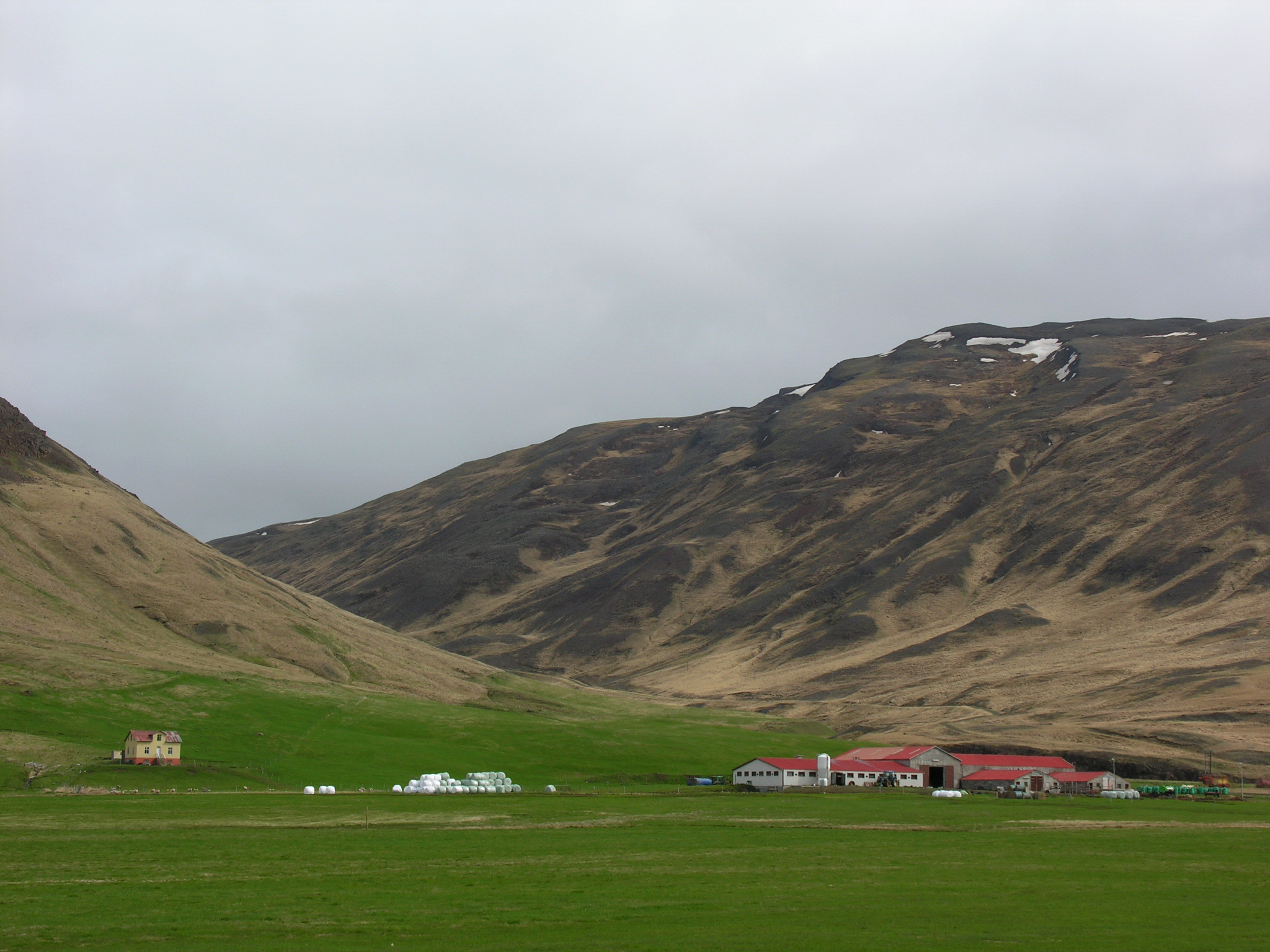 Iceland, impressions along road 1 (Hringvegur)